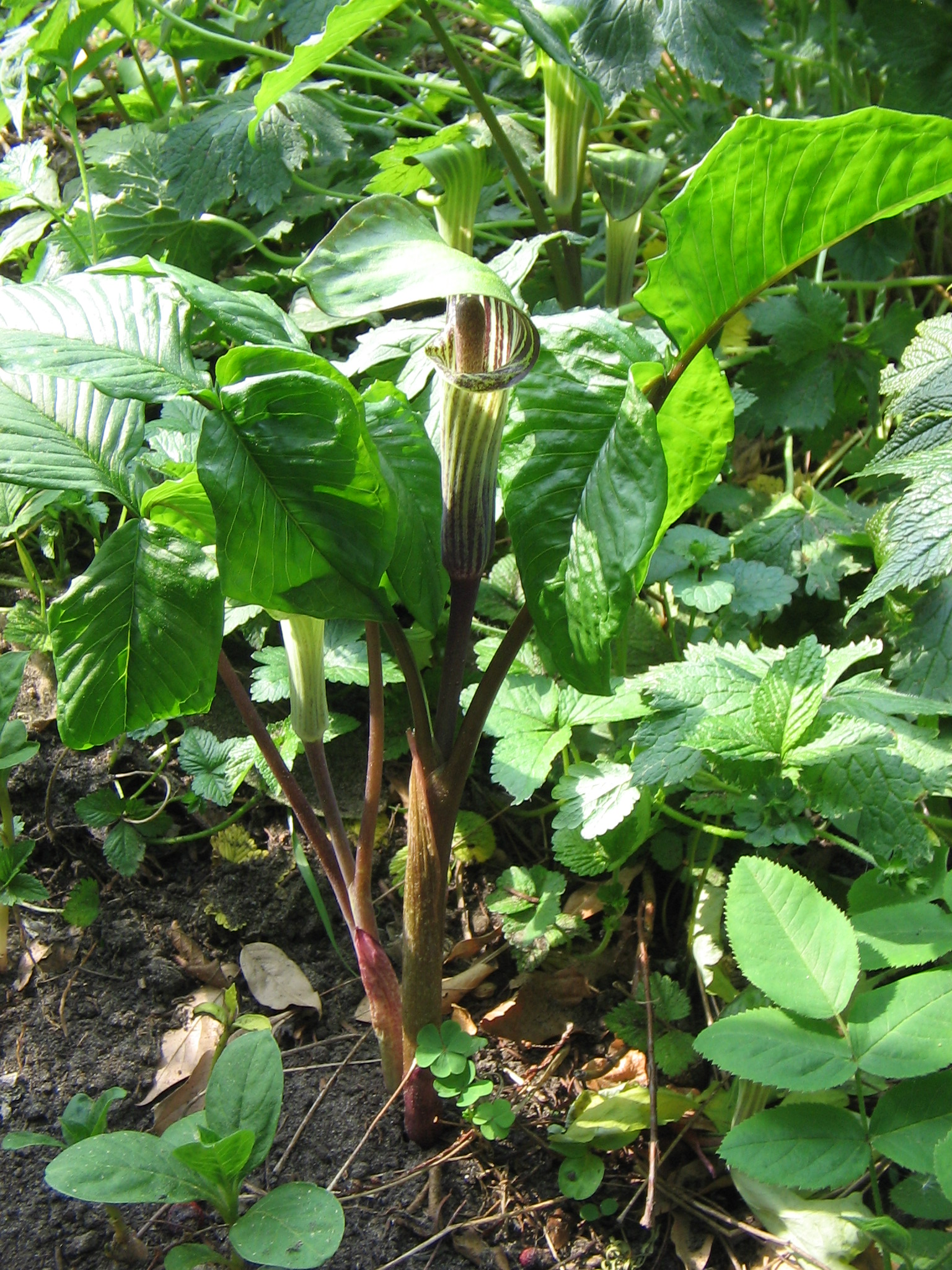 Arisaema triphyllum